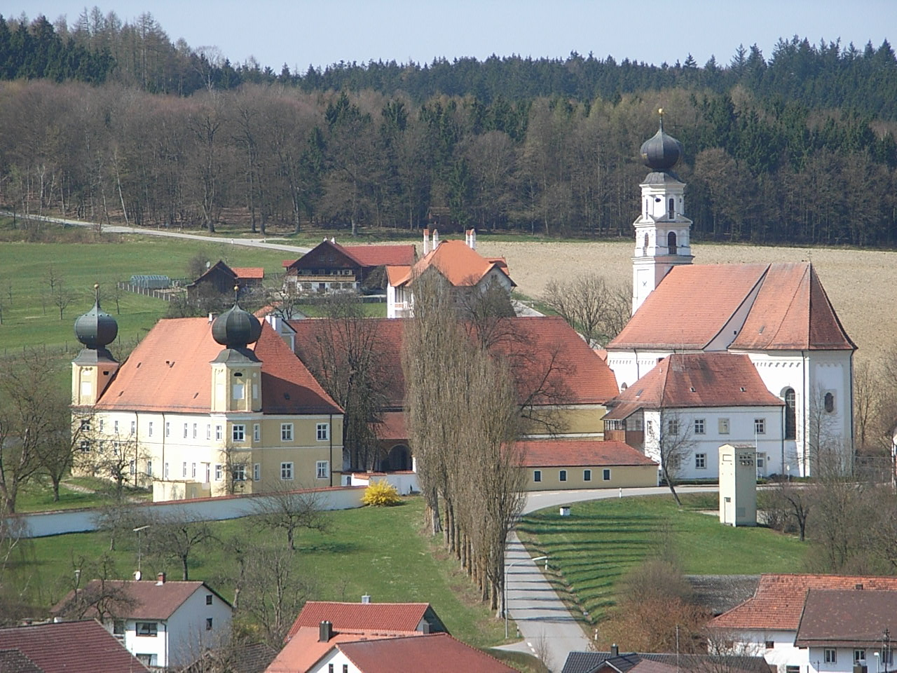 Sankt Salvator (Bad Griesbach), former Premonstratensian abbey with Parish Church of Christ the Saviour from south west.